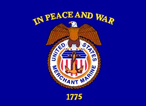 Flag of the U.S. Merchant Marine